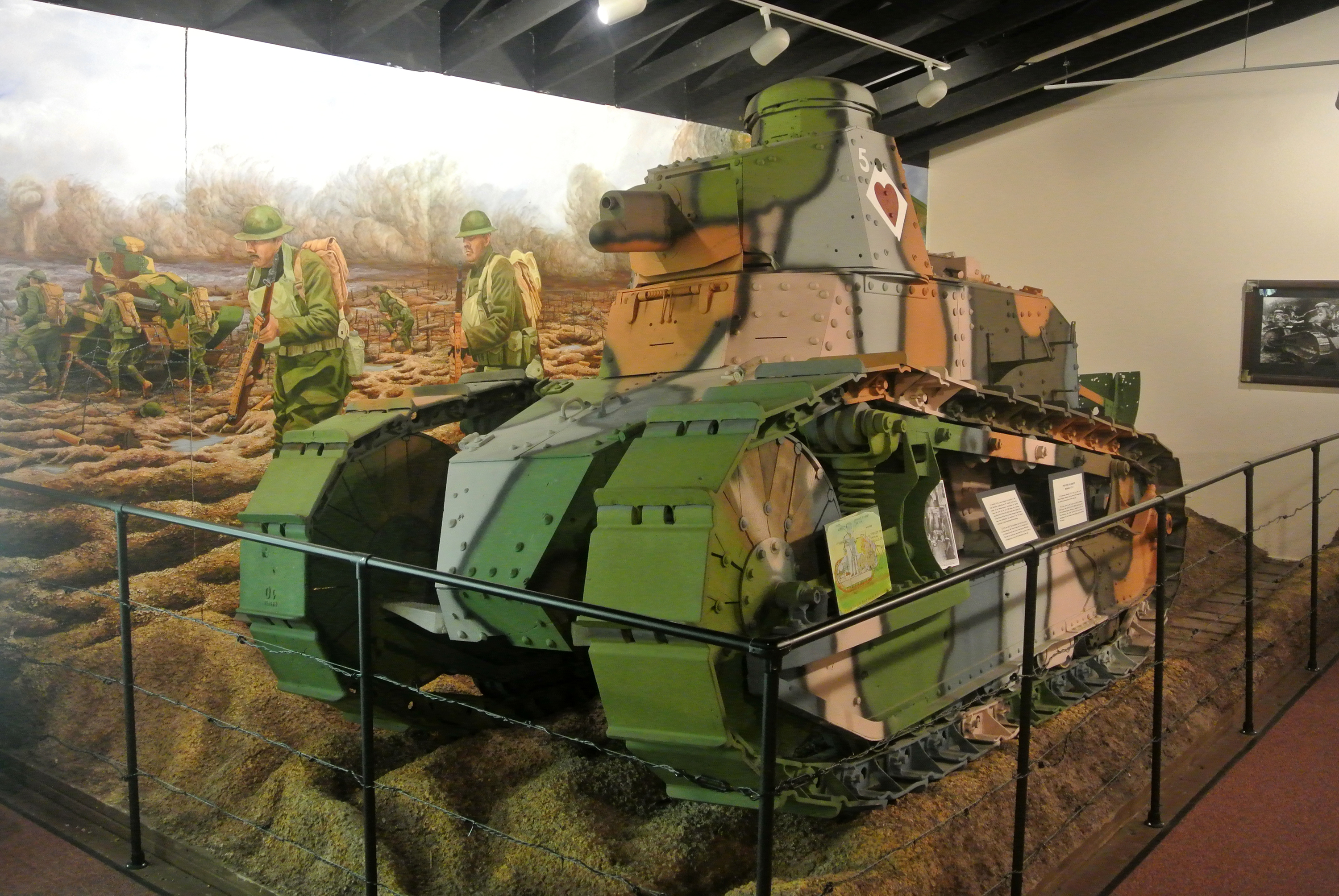 FT-17 Renault tank at Fort George G. Meade Museum, Maryland.